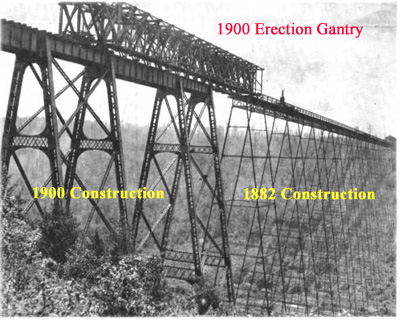 Reconstruction of the Kinzua Bridge in 1900, in McKean County, Pennsylvania, USA. 1882 structure is on the right, 1900 replacement is on the left, the traveling crane spans them.